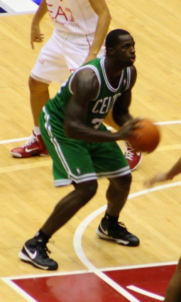 Boston Celtics player Brandon Bass